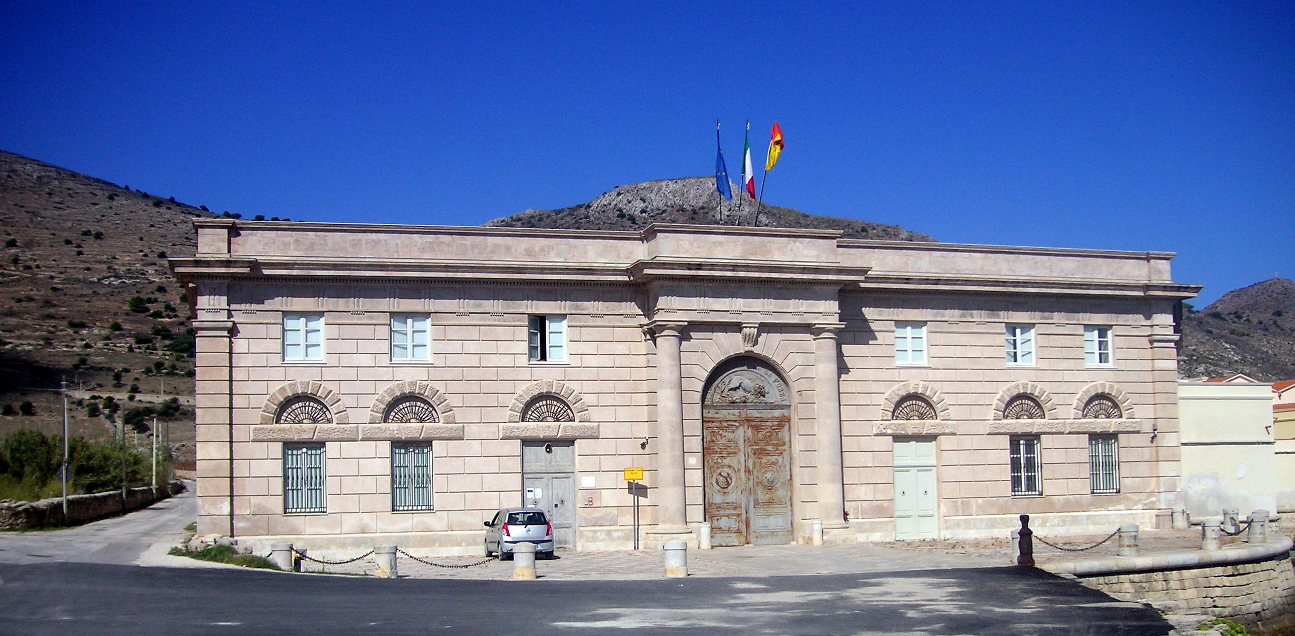 Tuna fishing in Favignana